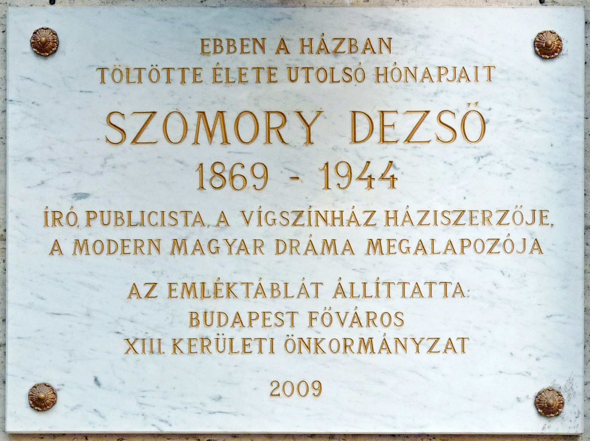 Commemorative plaque of Dezső Szomory in Budapest District XIII, Pozsonyi Street No 22